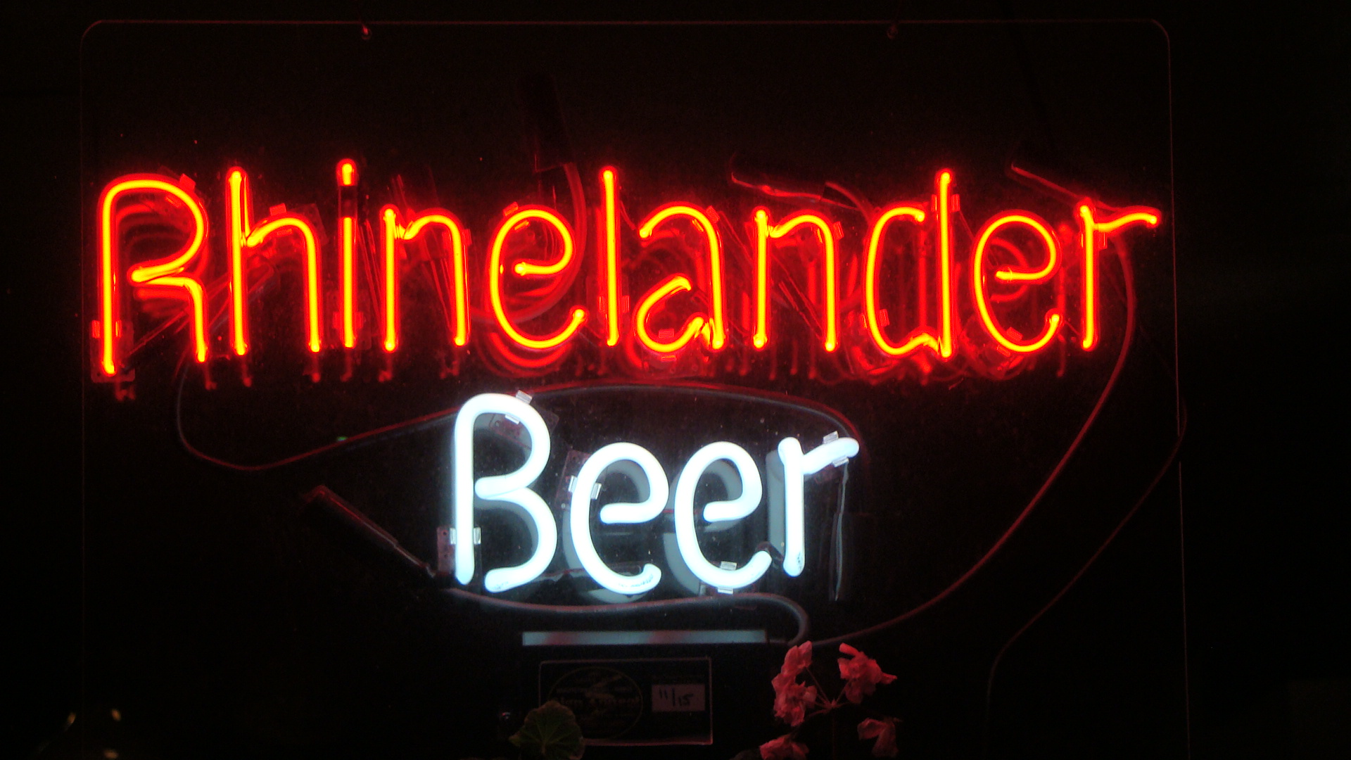 A photograph of a neon beer sign, advertising Rhinelander Beer.